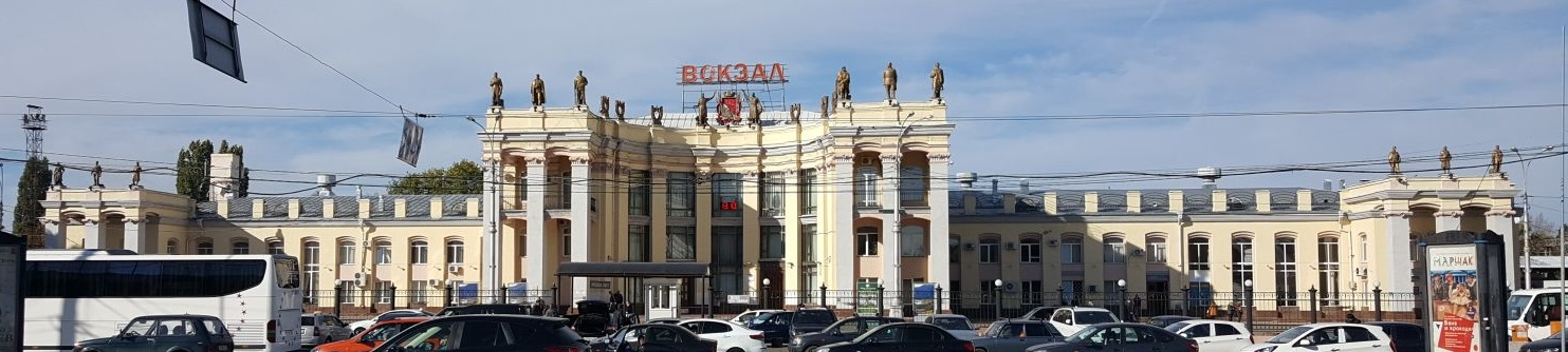 This photo of the main Voronezh Train Station, called Voronezh-1 Railway Station, was taken in October 2018 from the Monument to General Chernyakhovsky across the street from the main entrance to the Station.